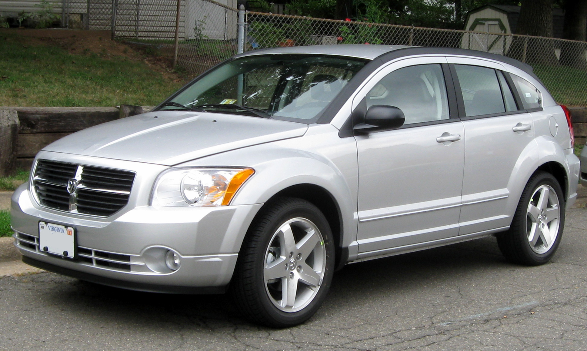 2007–2009 Dodge Caliber R/T photographed in Fairfax, Virginia, USA.